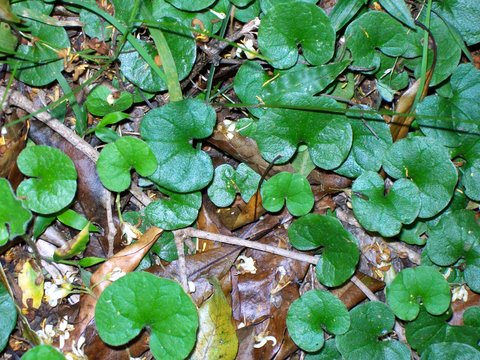 Kidney Weed at Eastwood, NSW